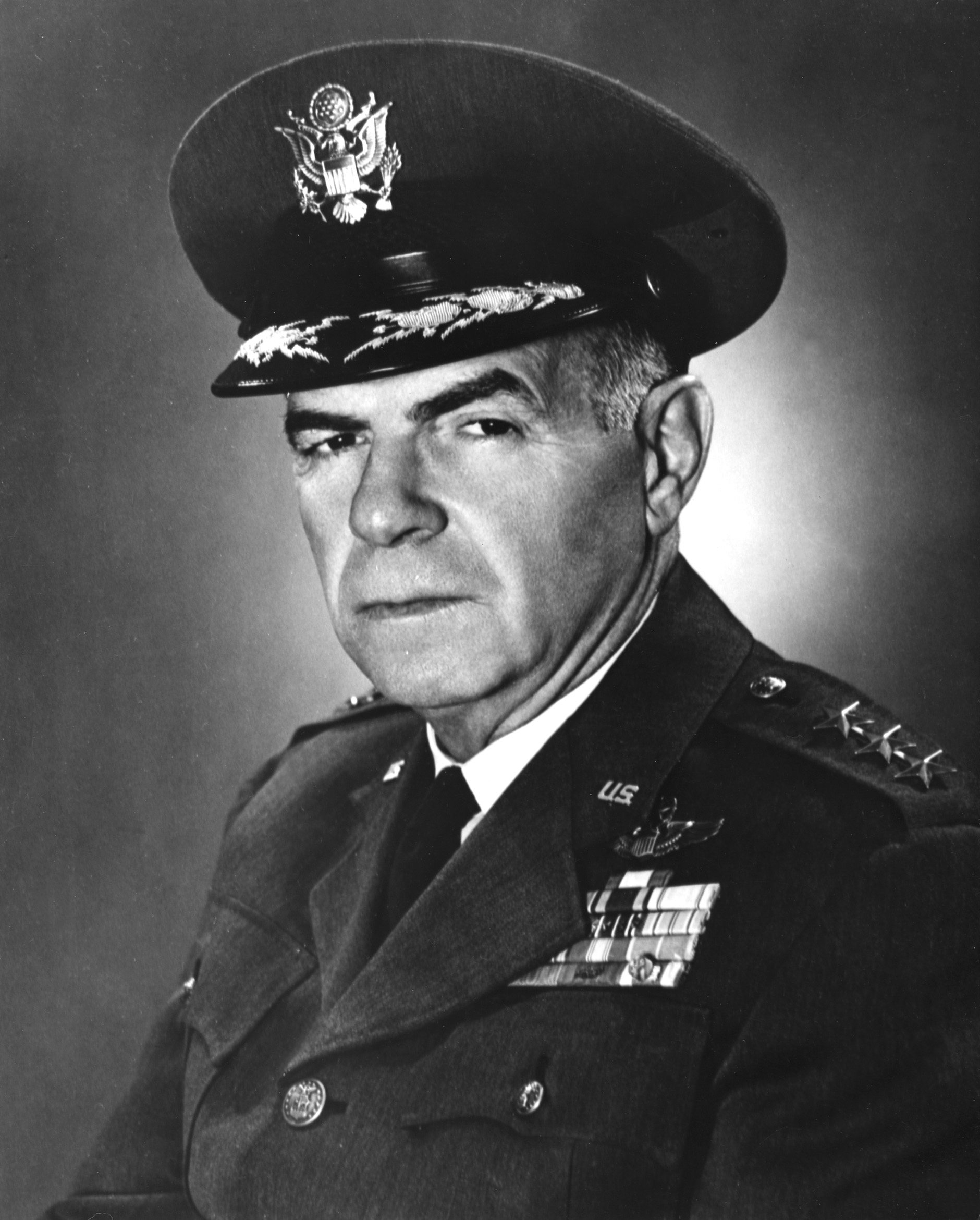 LGEN Francis H. Griswold, USAF